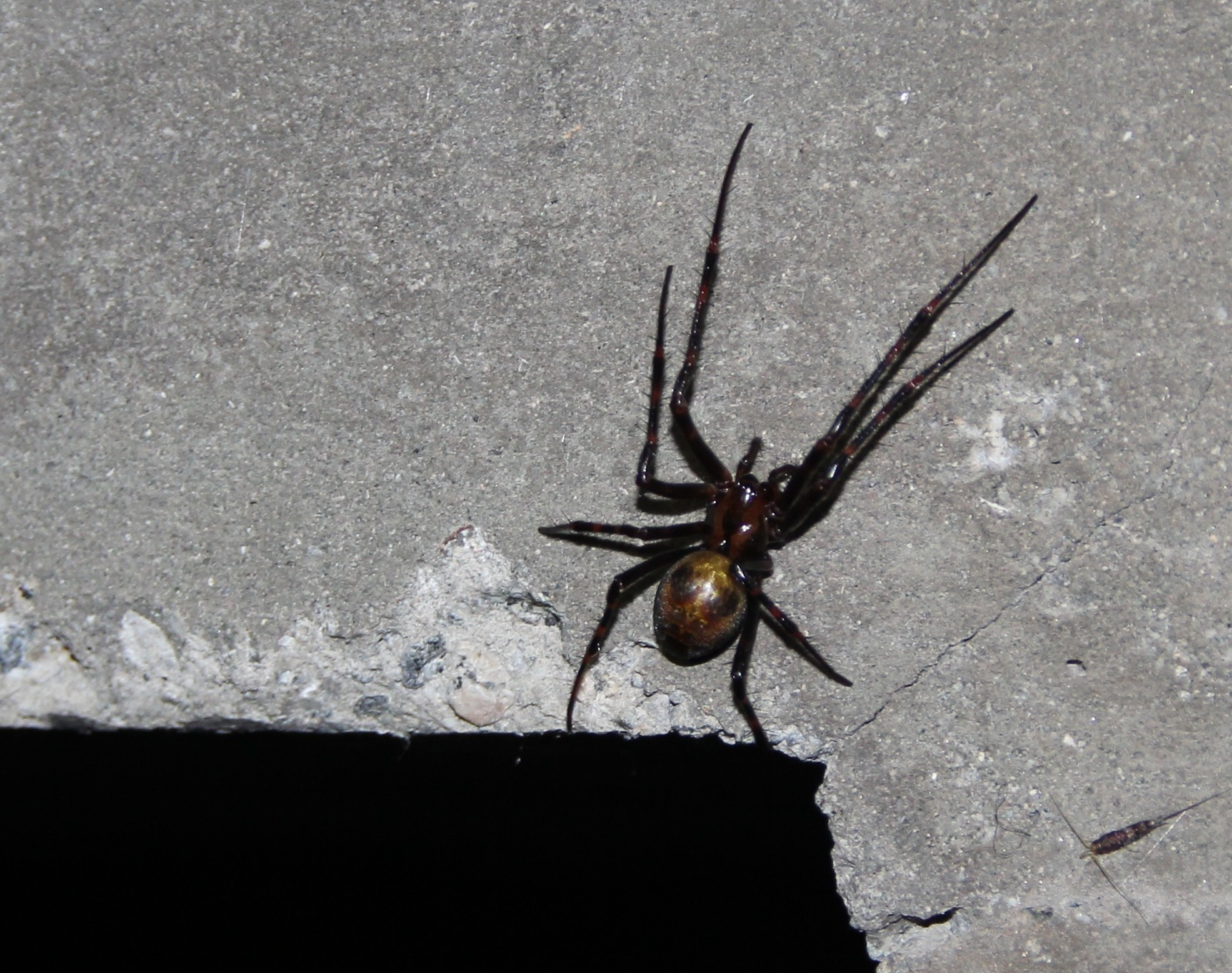 This is the spider Meta menardi in an old WWII bunker.